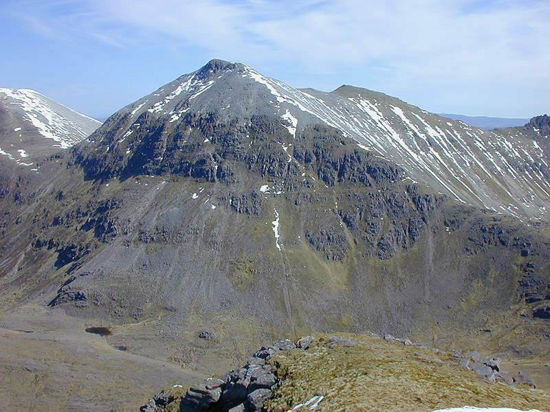 Mullach Coire Mhic Fhearchair, from Beinn Tarsuinn Looking towards the great mountain, the highest of the Fisherfield peaks, with its neighbour Sgùrr Bàn just visible on the left.